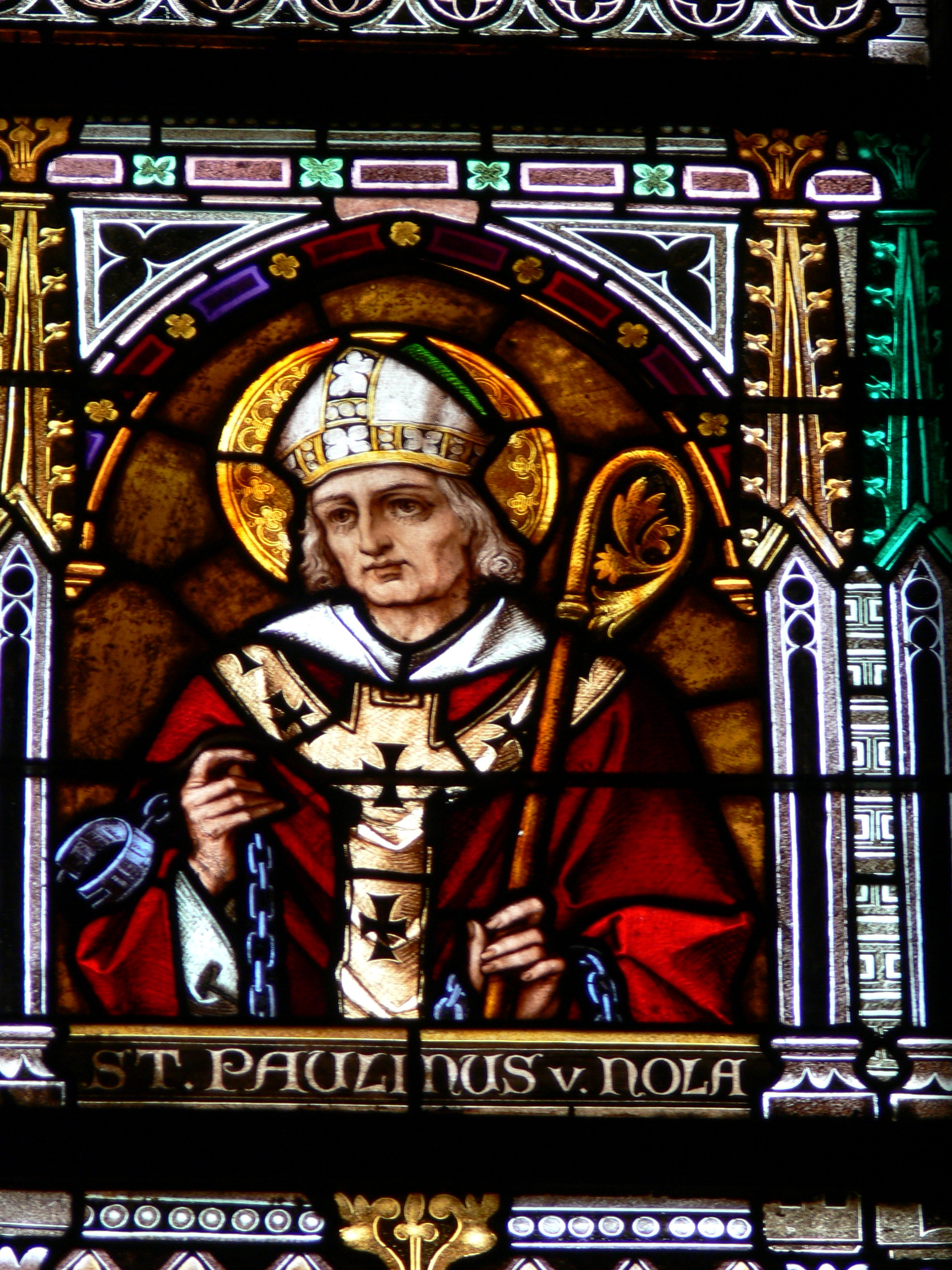 Linz Cathedral ( Upper Austria ). Gothic revival stained glass window showing Saint Paulinus of Nola.